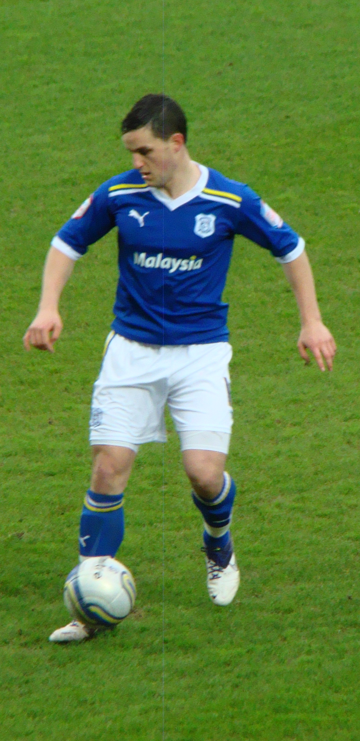 Craig Conway playing for Cardiff City. 21/01/12 Cardiff V Portsmouth, Championship, Cardiff City Stadium, Cardiff, Wales.